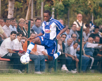 Jacinto Elá in Español B